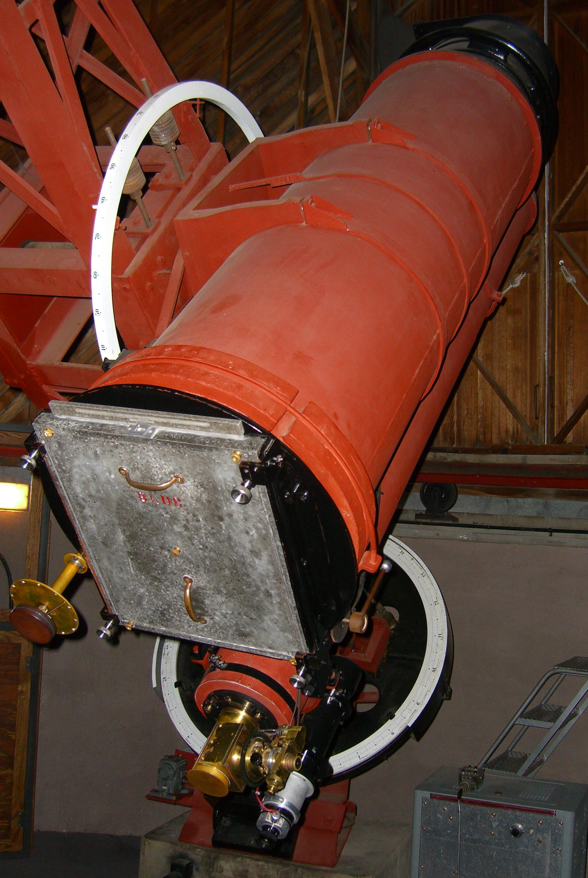 Tombaugh used Lowell Observatory's 13-inch (3 lens element), f/5.3 refractor astrograph, which recorded images on 14x17 inch glass plates, to discover Pluto.